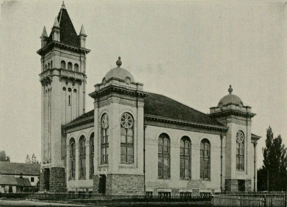 This is a photograph published in 1913 of the Lehi Tabernacle of The Church of Jesus Christ of Latter-day Saints in Lehi, Utah, United States. It was dedicated in 1910 and razed in 1962, to be replaced by a new stake center building.